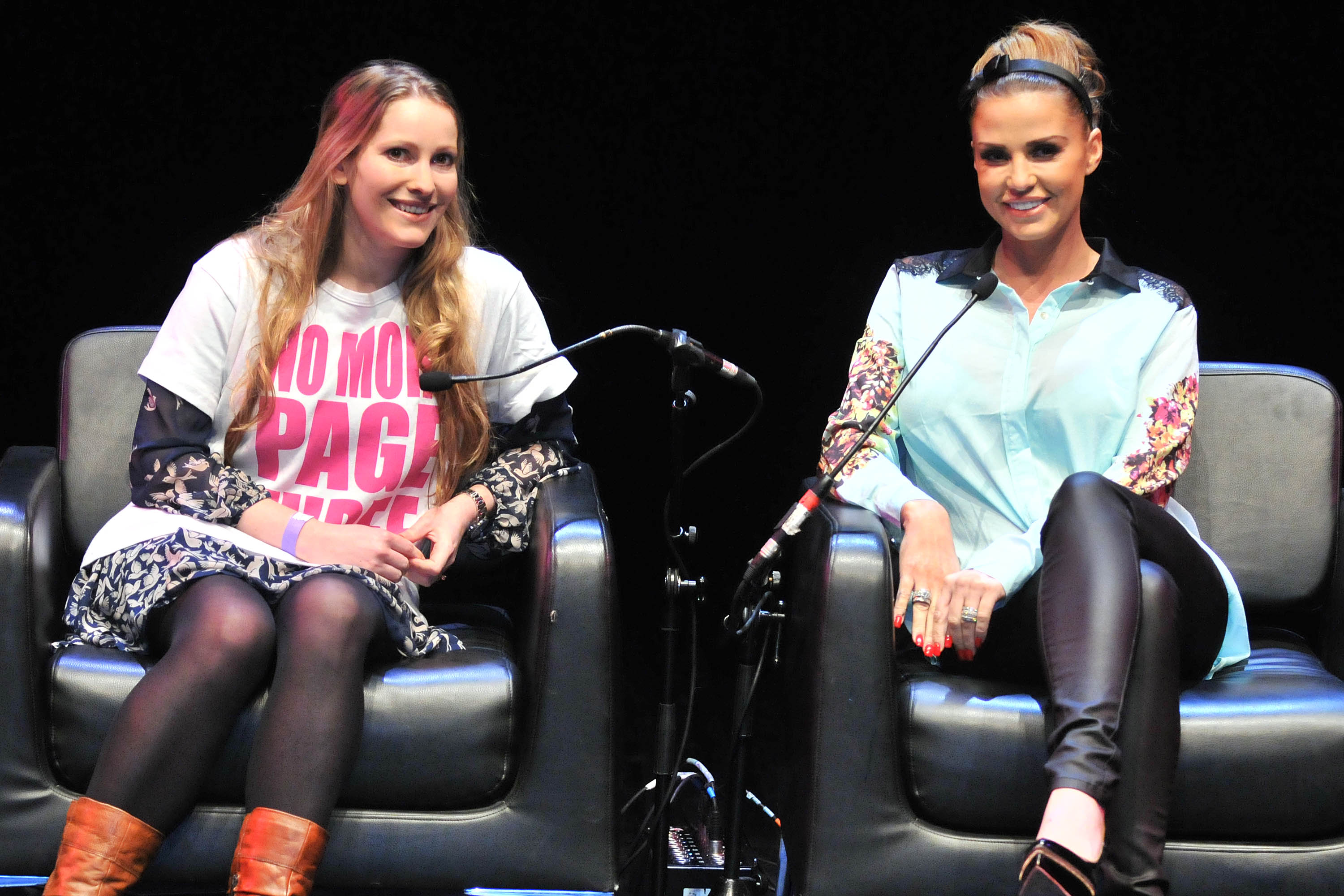 Laura Bates and Katie Price at WOW Festival 2014